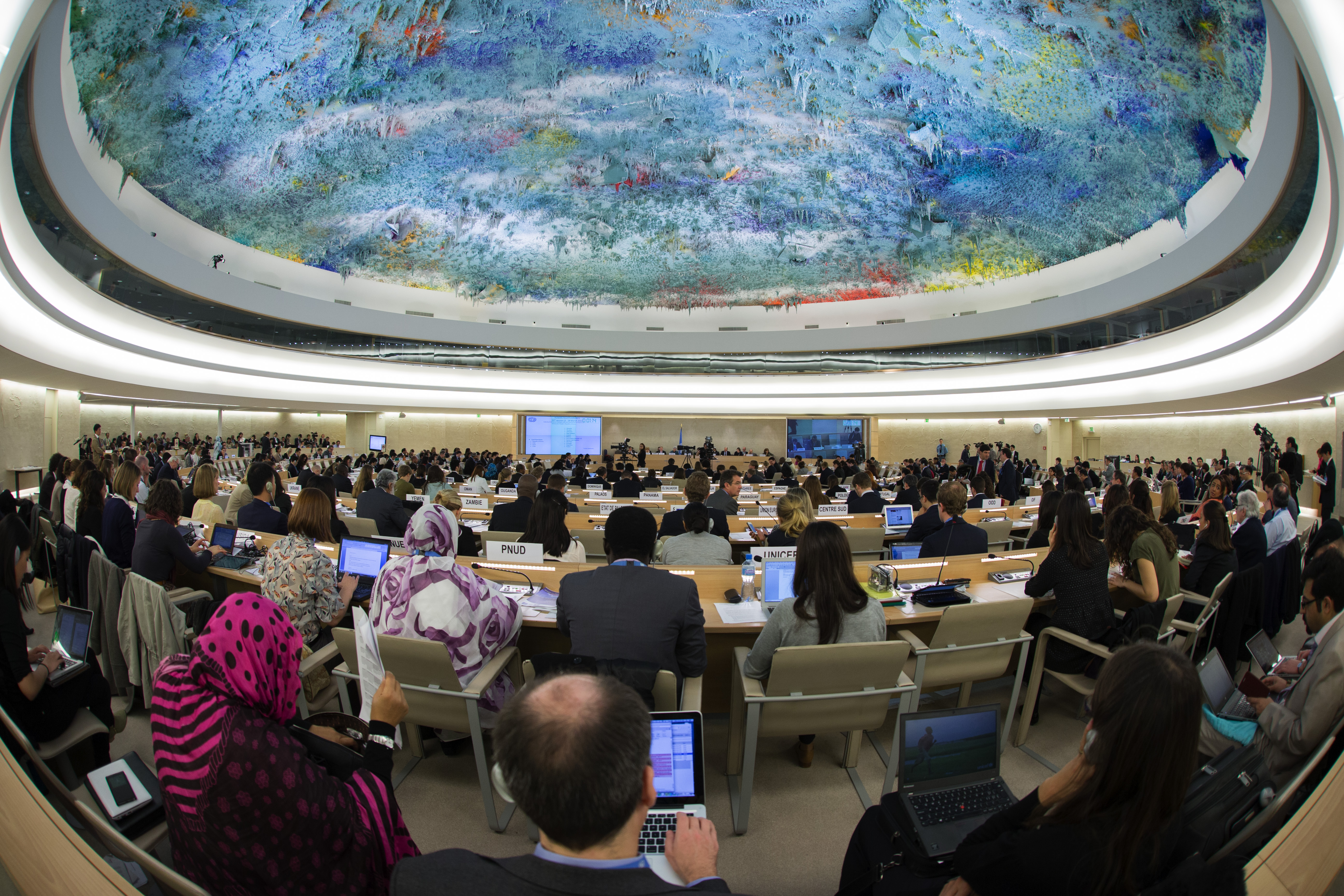 The United Nations Commission of Inquiry on North Korea formally presented its report to the Human Rights Council March 17, 2014. U.S. Mission Geneva/ Eric Bridiers